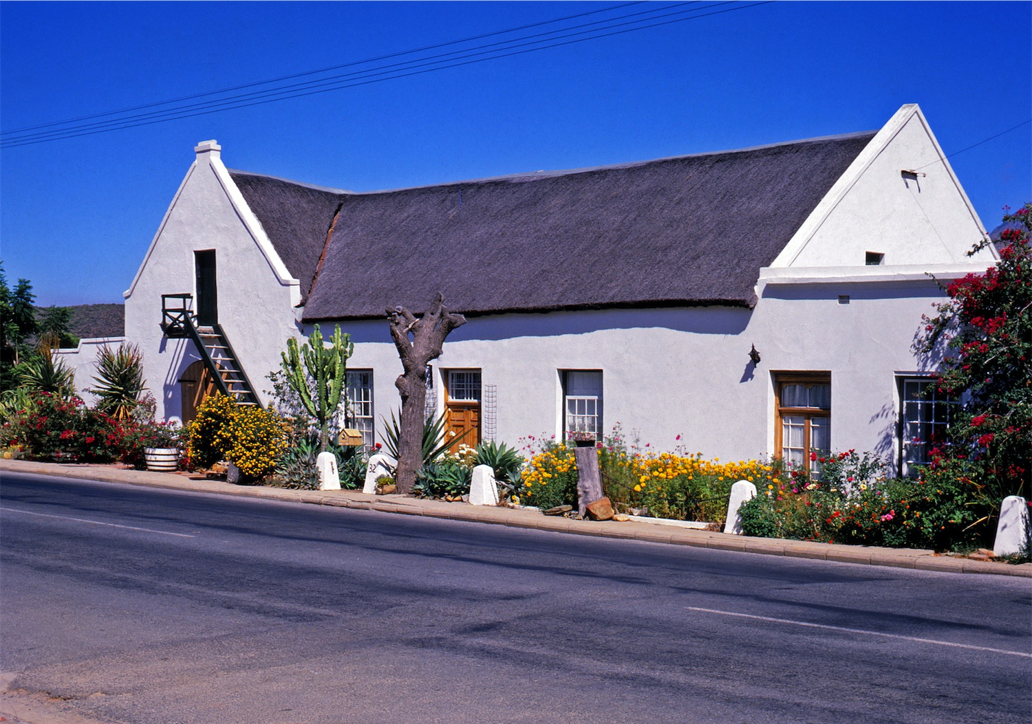 This media shows a South African Protected Site with SAHRA file reference 9/2/063/0002.